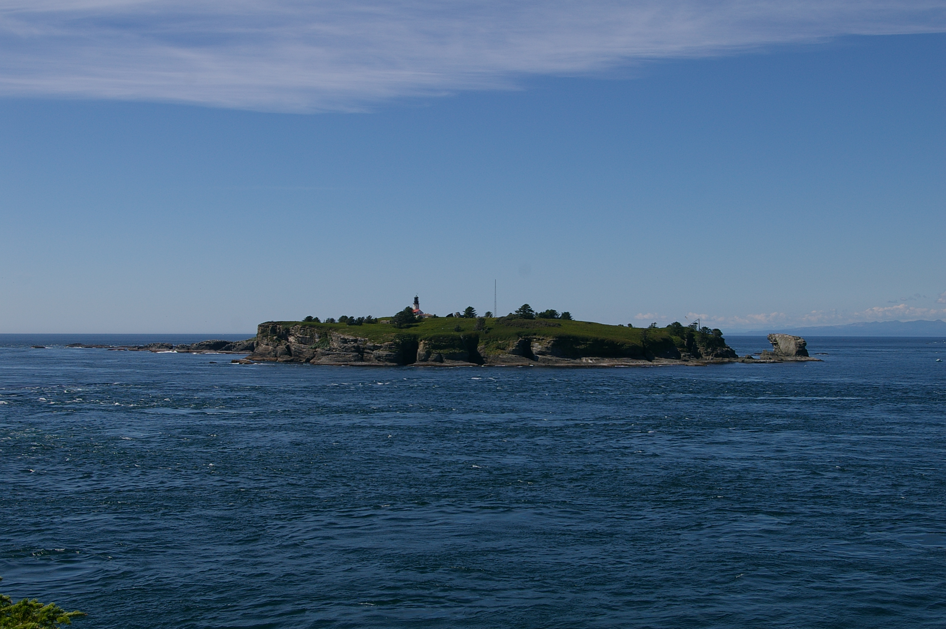 Tatoosh Island as seen from Cape Flattery last observation deck